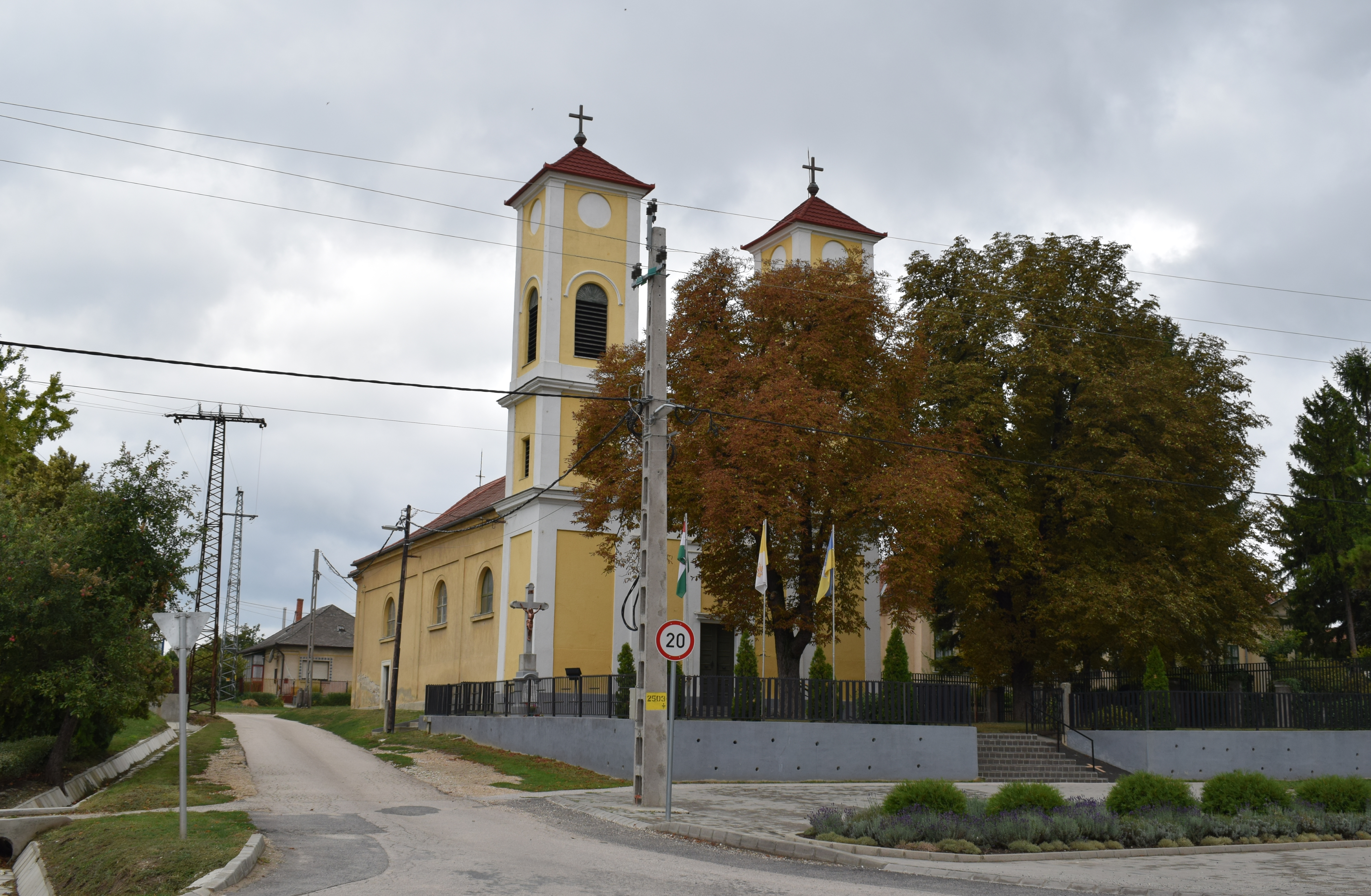 King Saint Stephen Church in Polgárdi.